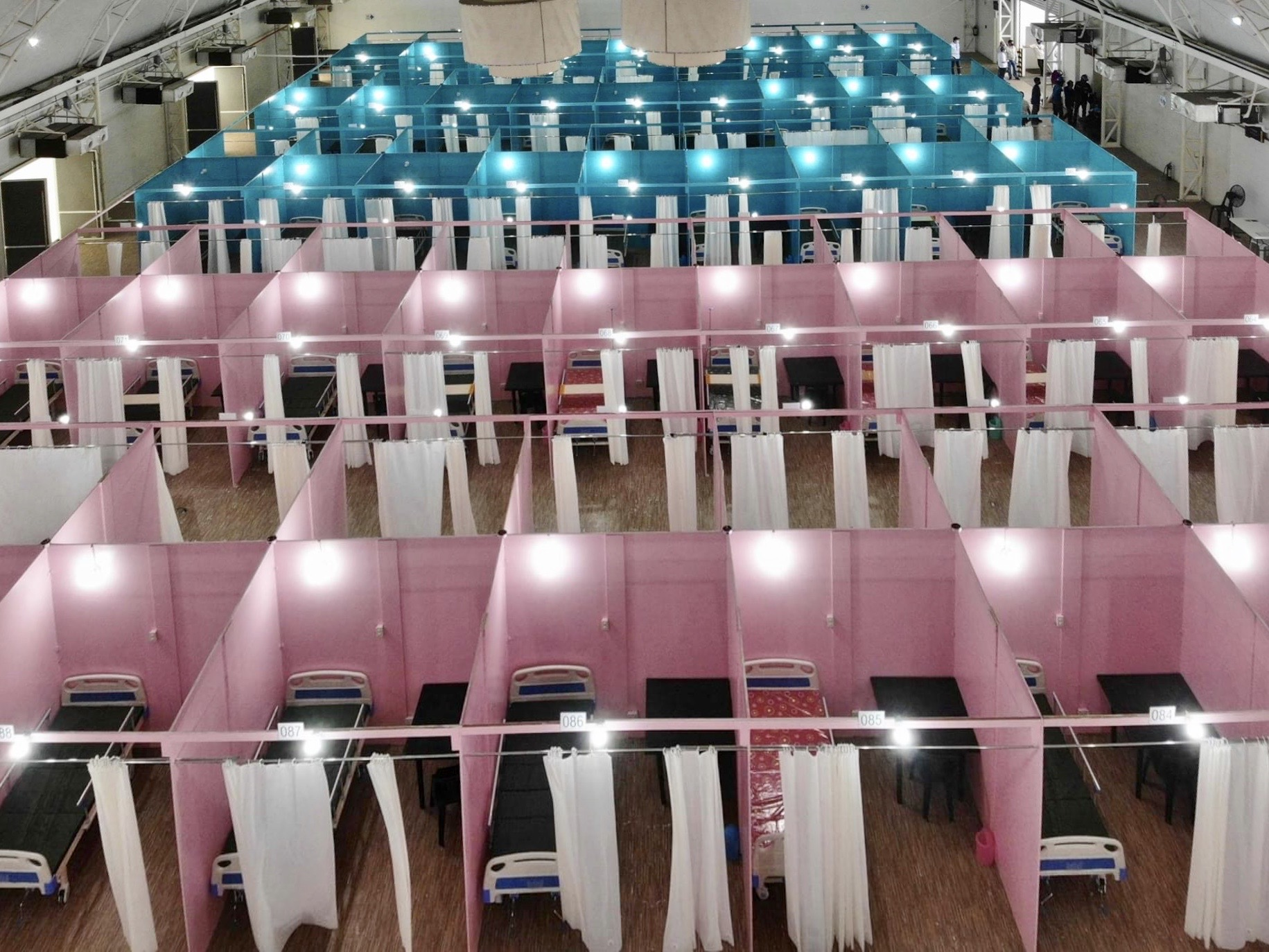 The 108-bed quarantine center at Filinvest Tent in Alabang, Muntinlupa City is now ready for use as a COVID-19 mega quarantine facility. Photo from DPWH.